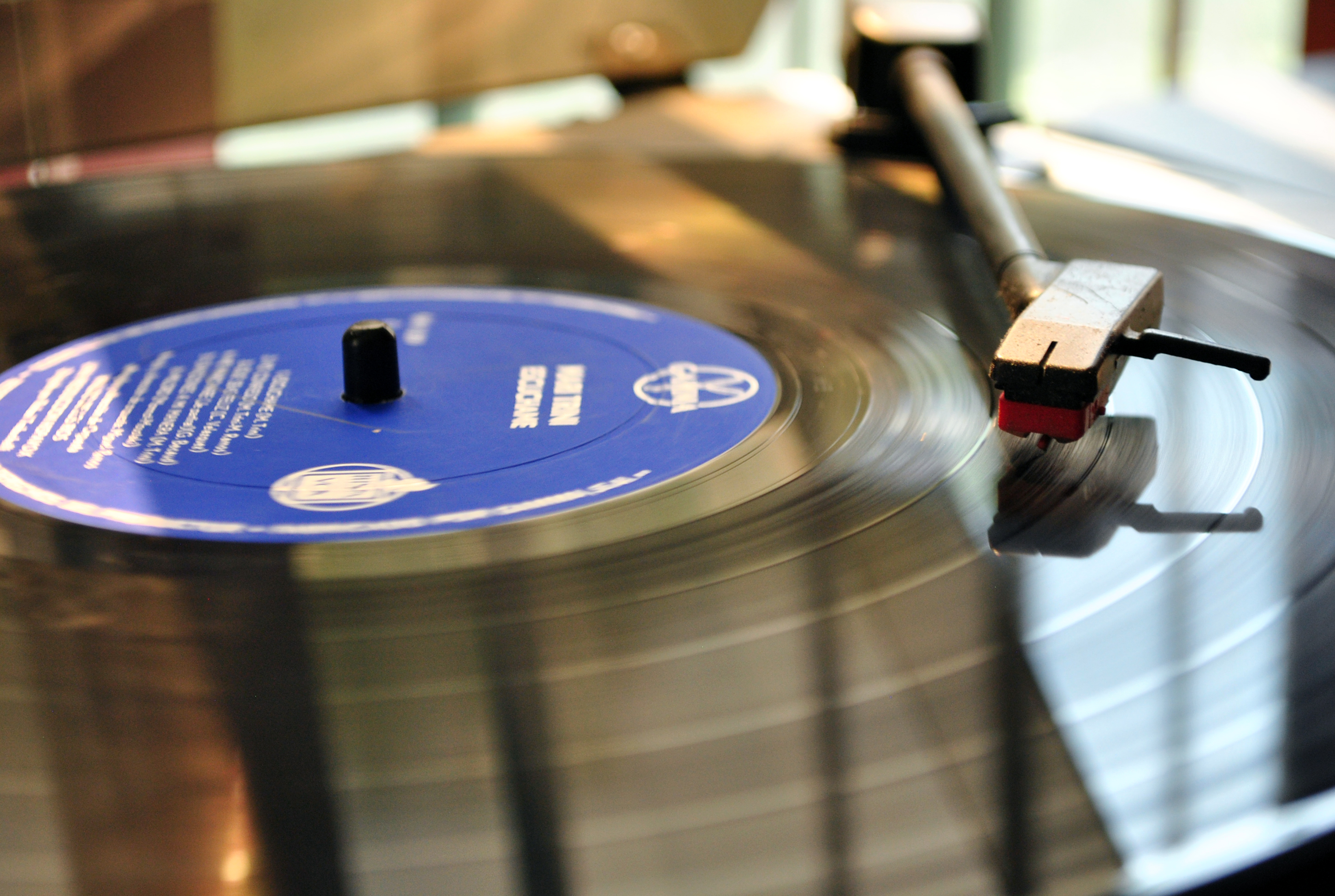 A close up on a vinyl record of the Spanish artist Mari Trini.